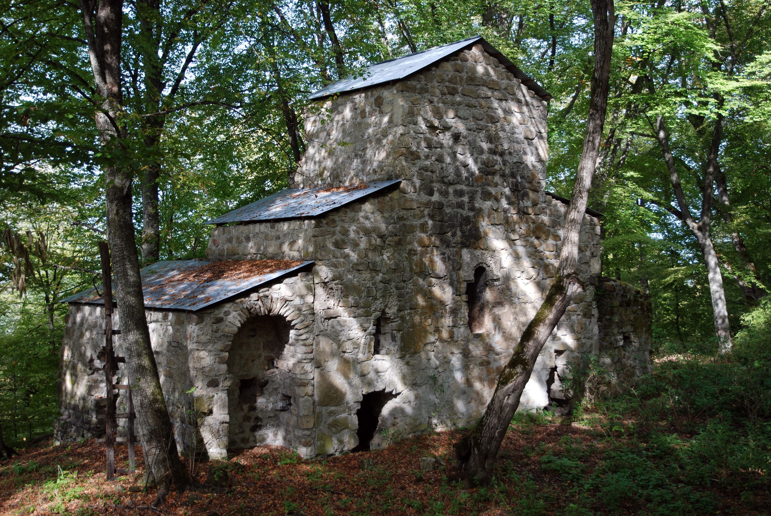 Vachnadziani Kvelatsminda, near Gurjaani, small basilika near main church